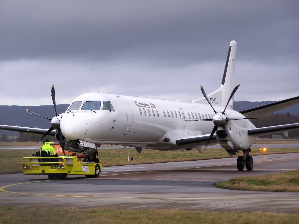 Towing i progress at Ängelholm Airport, Sweden. The aircraft is a Saab 2000 (SE-LTU).